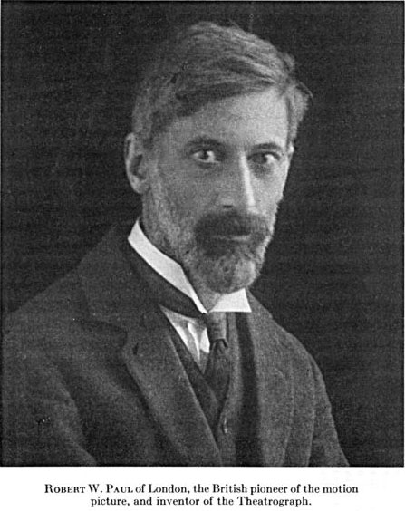 Robert William Paul circa 1896